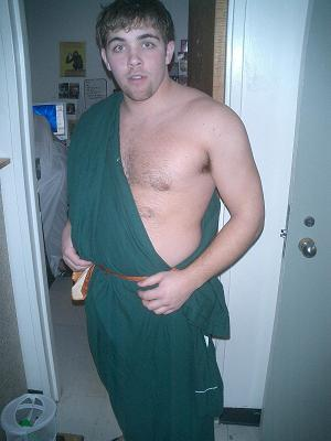 Picture was taken by myself with my digital camera. This file is not available on any website (online) and is being posted by me as an example of a traditional home-made toga.